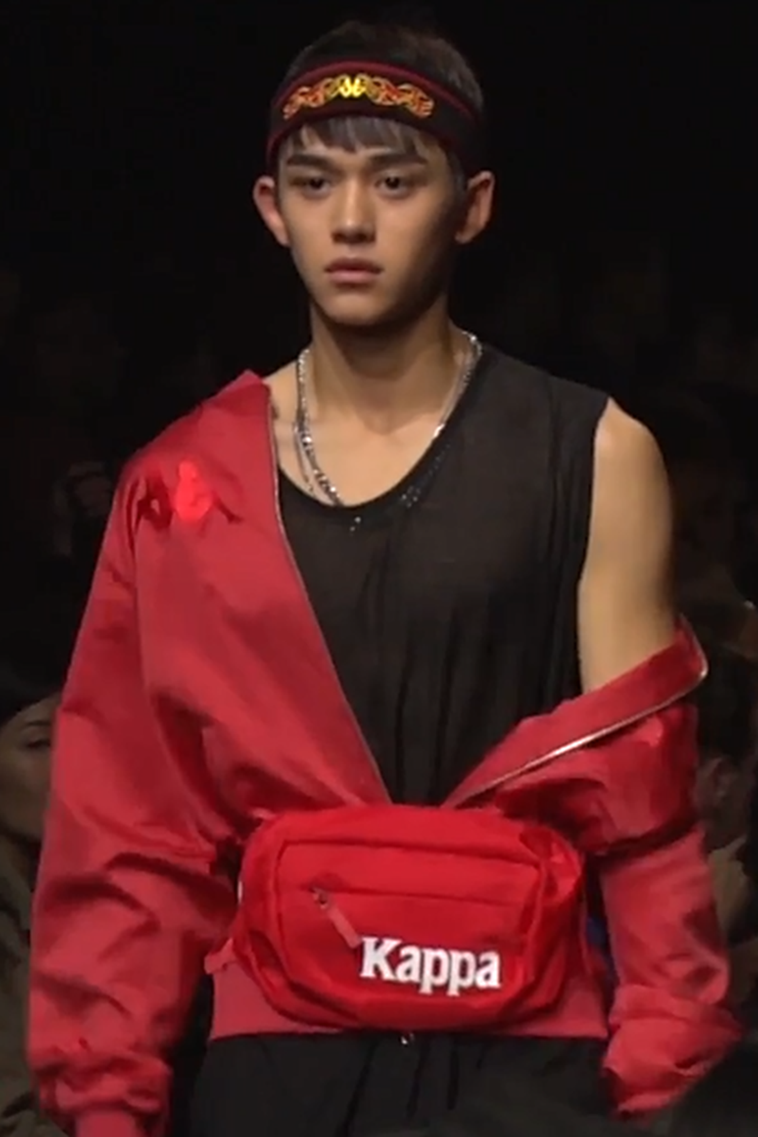 Lucas Wong during the 2019 S/S Hera Seoul Fashion Week on October 19, 2018.